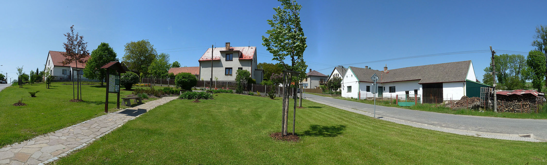 Houses Nos 13, 48 and 40 in the municipality of Chrbonín, Tábor District, South Bohemian Region, Czech Republic.